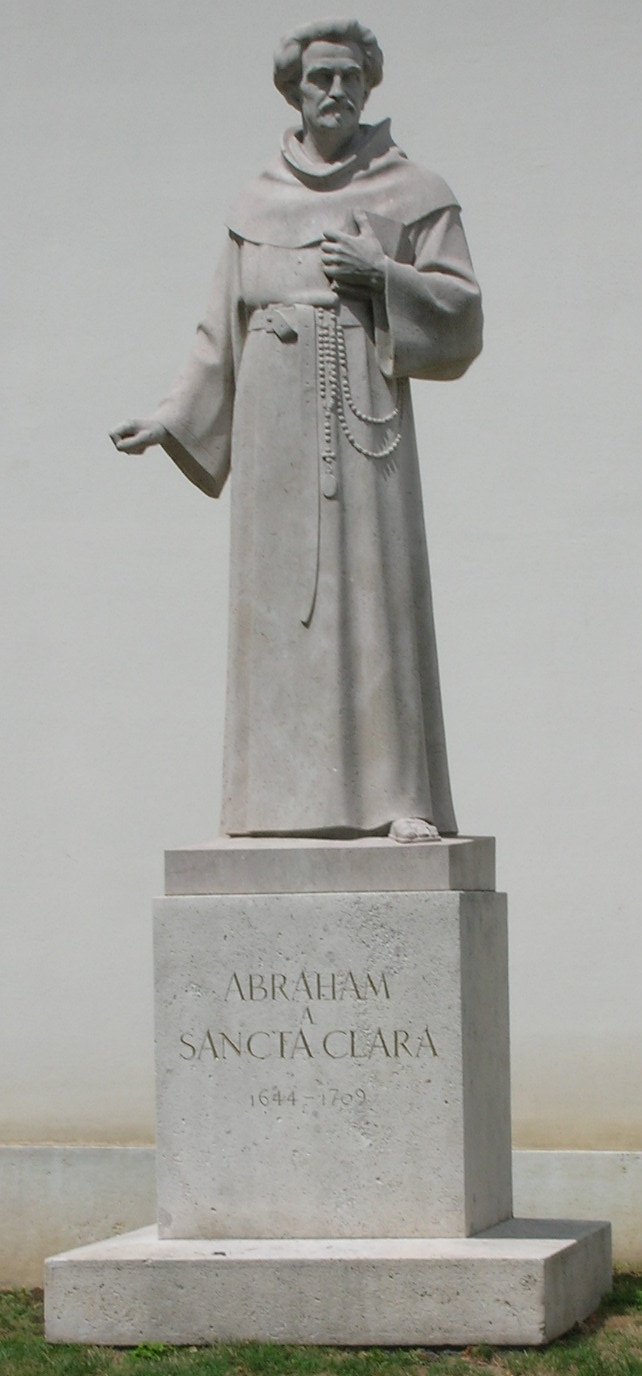 Statue of Abrahm Sancta Clara, by Hans Schwathe, 1928, outside the Imperial Palace, Vienna